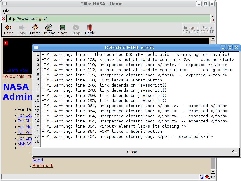 Dillo's bug meter (running on Debian) showing 16 validation errors in